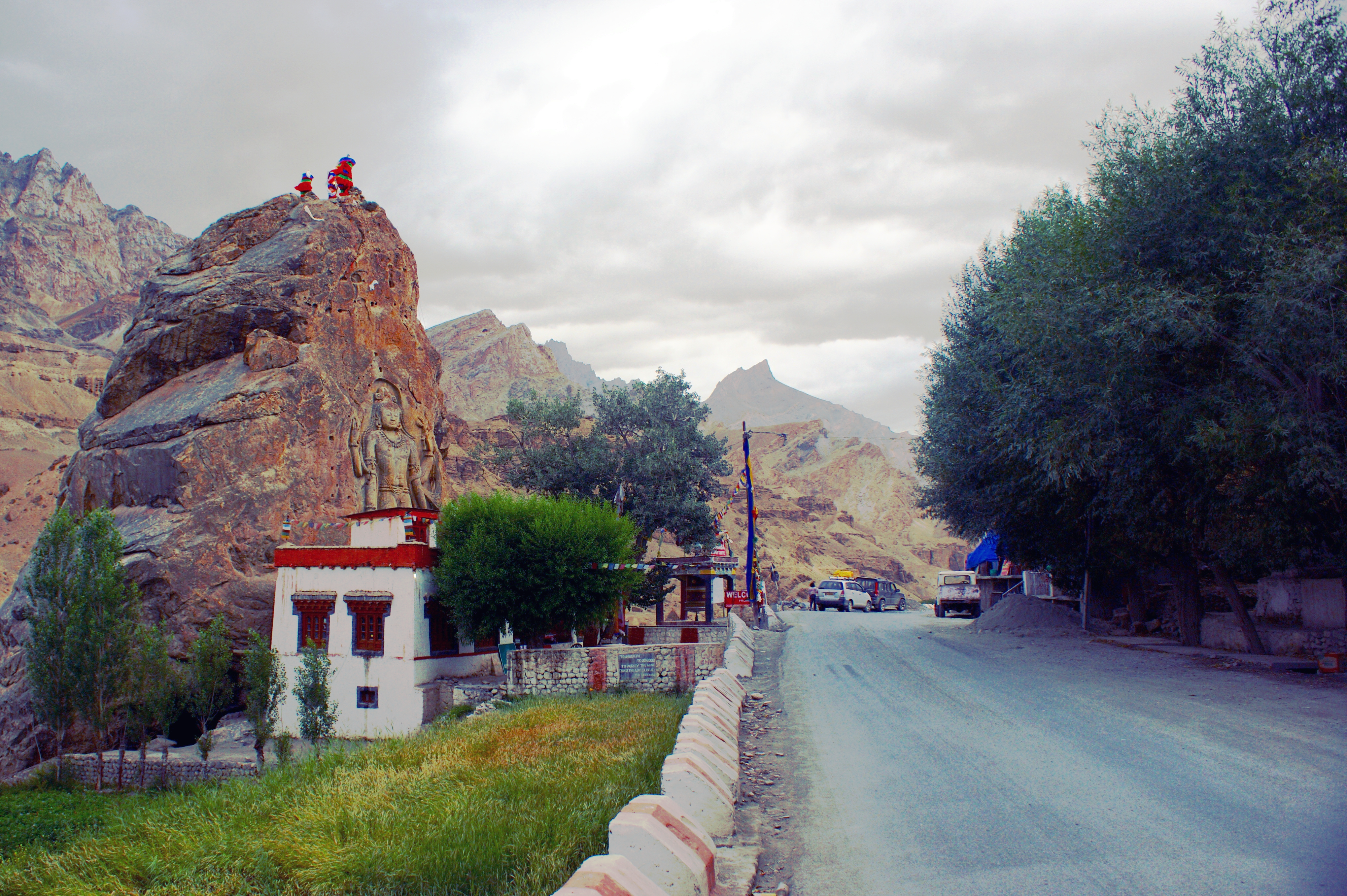 The statue of Maitreya Buddha in Mulbekh. On the right side is the Srinagar-Leh-Highway (view towards east/Kargil). For details see